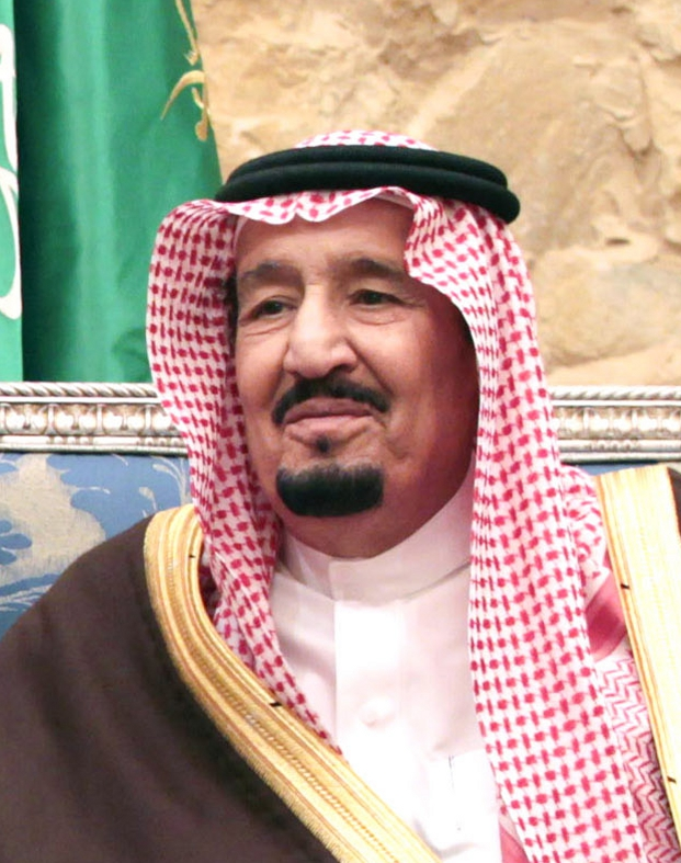 Philippine President Rodrigo Duterte converses with King Salman of Saudi Arabia in Riyadh during the former's state visit to the country on April 11, 2017.